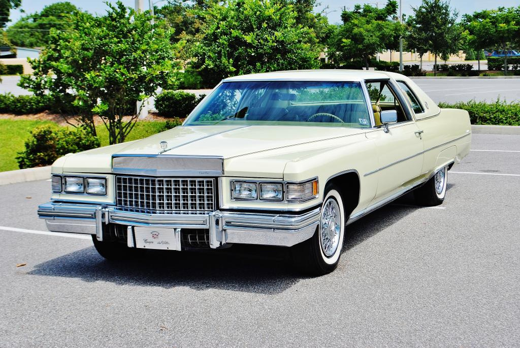 Color is called Phoenician Ivory.